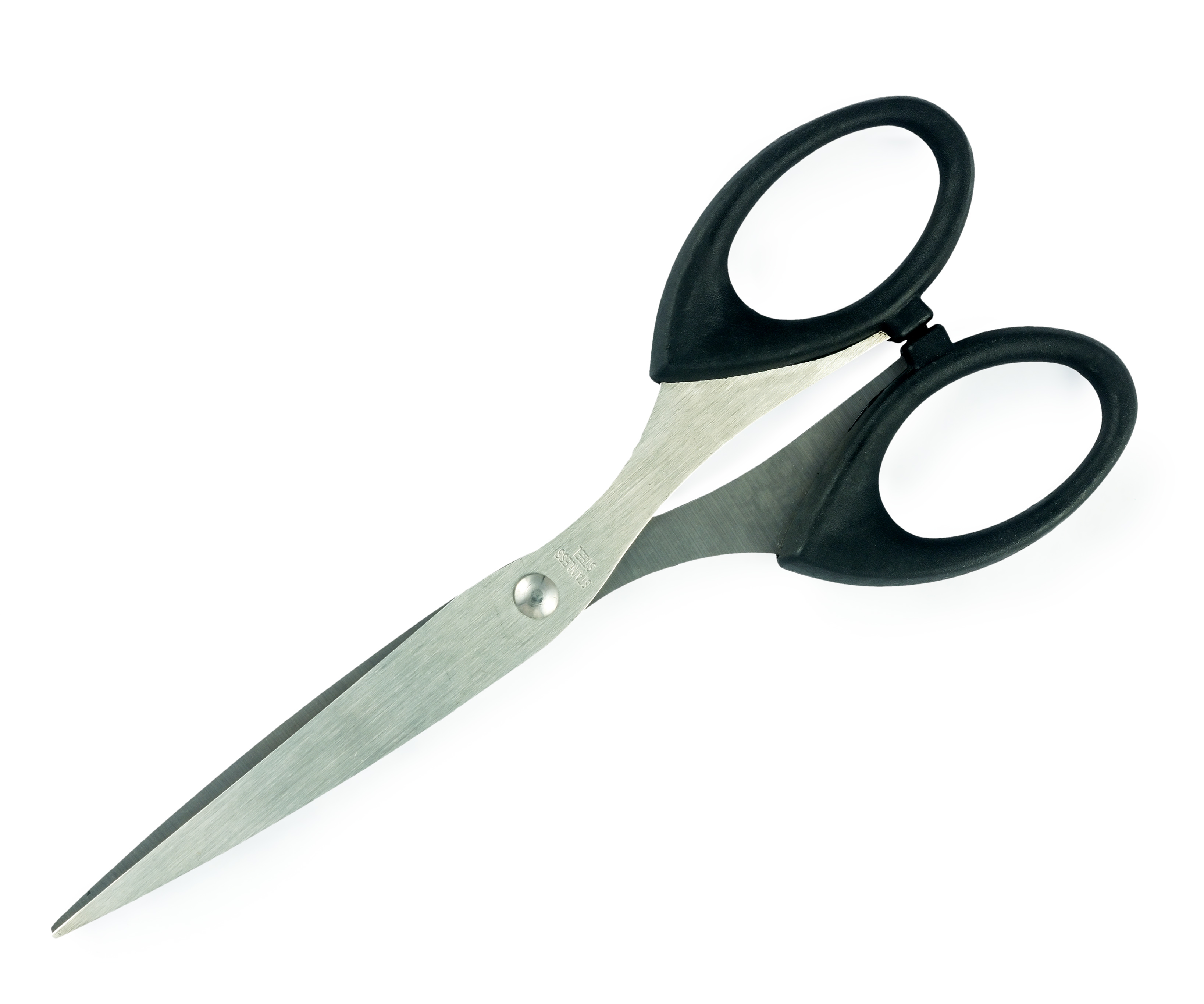 Pair of scissors with black handle, 2015-06-07